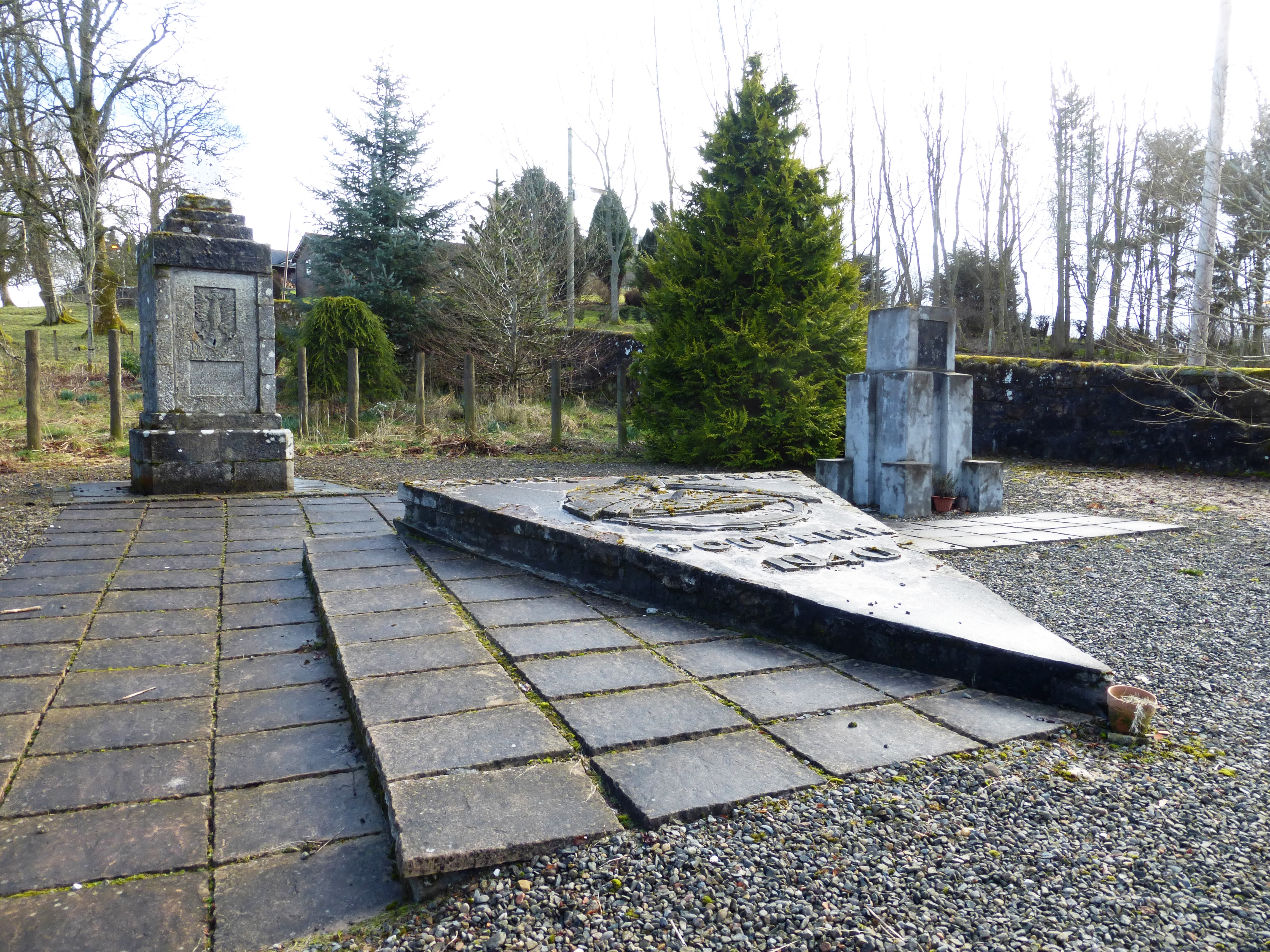 Polish Memorial Garden, Douglas, South Lanarkshire, Scotland